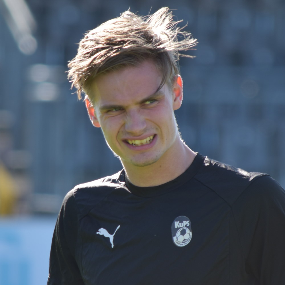 Association football player Saku Savolainen